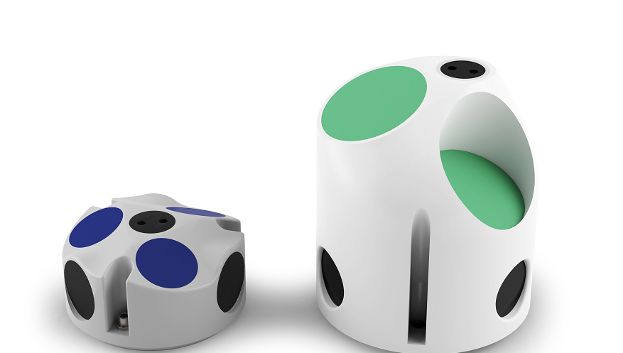 1 MHz and 0.6 MHz transducer heads